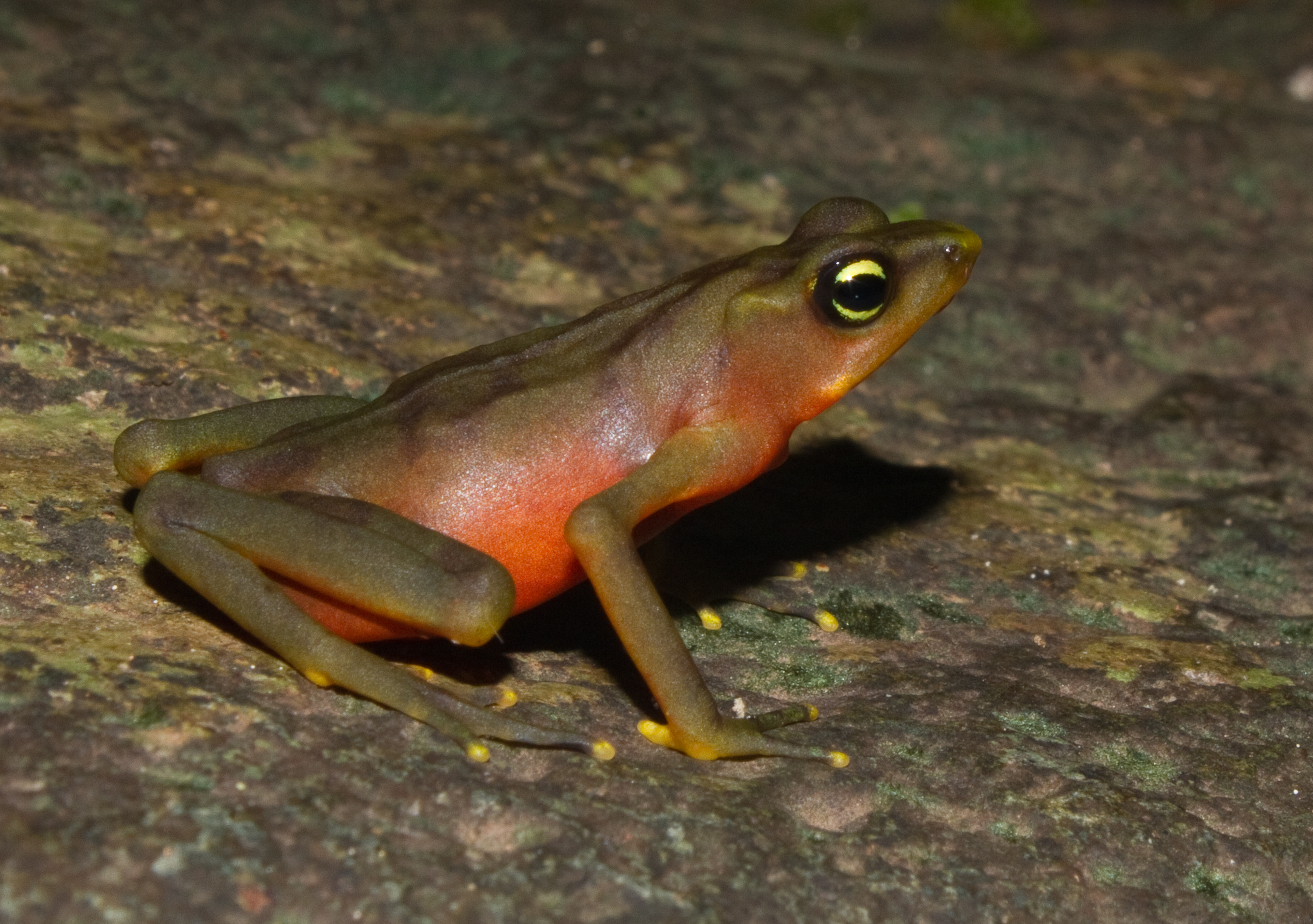 Female limosa harlequin frog (Atelopus limosus) looking for a mate, Panama.